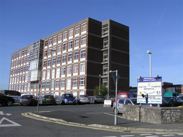 South Tyrone Hospital, Dungannon It is located at the north end of the town.